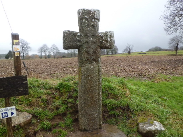 Medieval "Path Cross" at Saint-Marcan (Britanny)